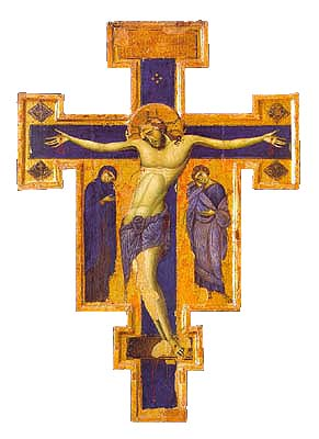 Double-sided Crucifix (13th century), tempera on panel, 109.5 x 77 cm. This file has been edited to remove the background